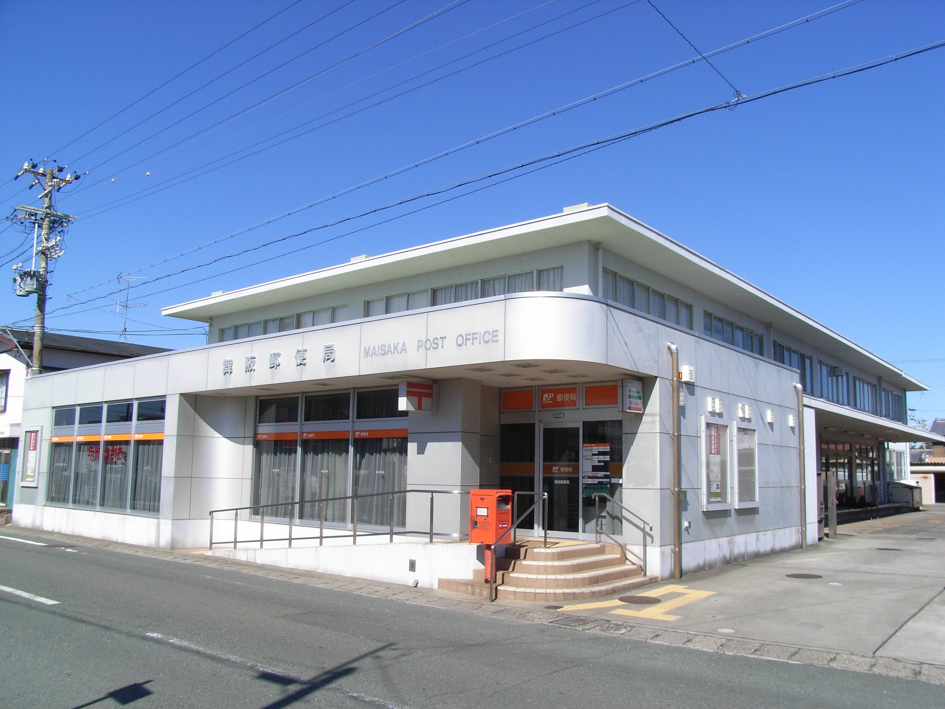 Maisaka Post Office